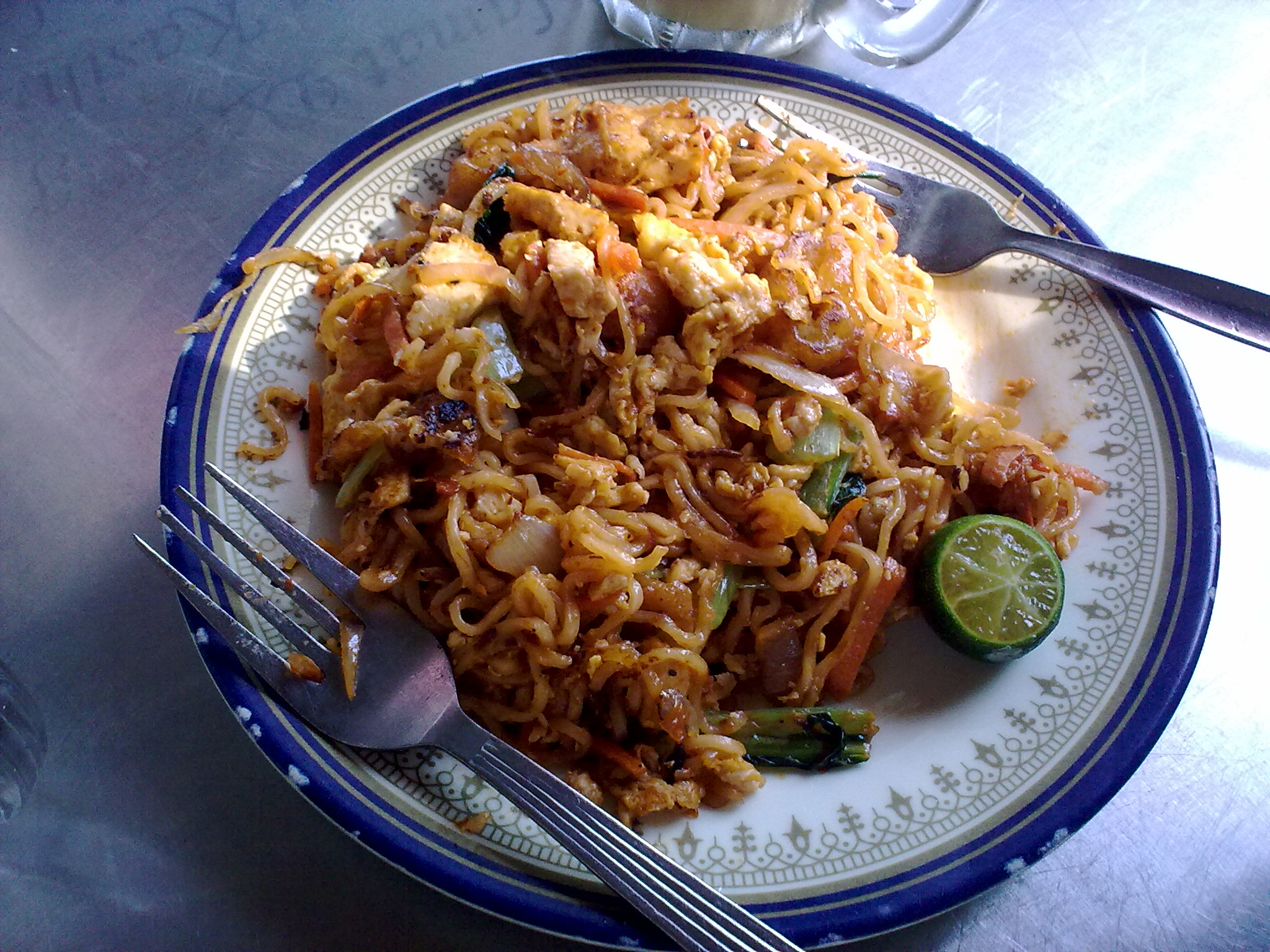 Magi Goreng noodles, as served at Restoran Khaleel, Gurney Drive, Penang, Malaysia